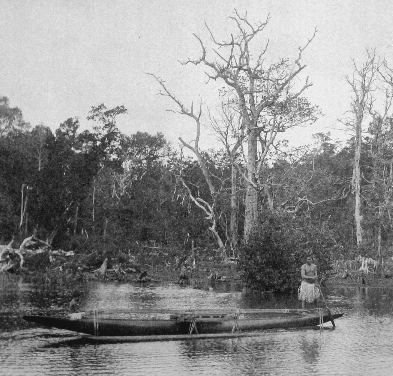 South Sea cruise 1899-1900, Caroline Chain, Kite Harbor, Ponape, natives and canoe, Ron-Kite Village. Note that this image is cropped and tones rebalanced.